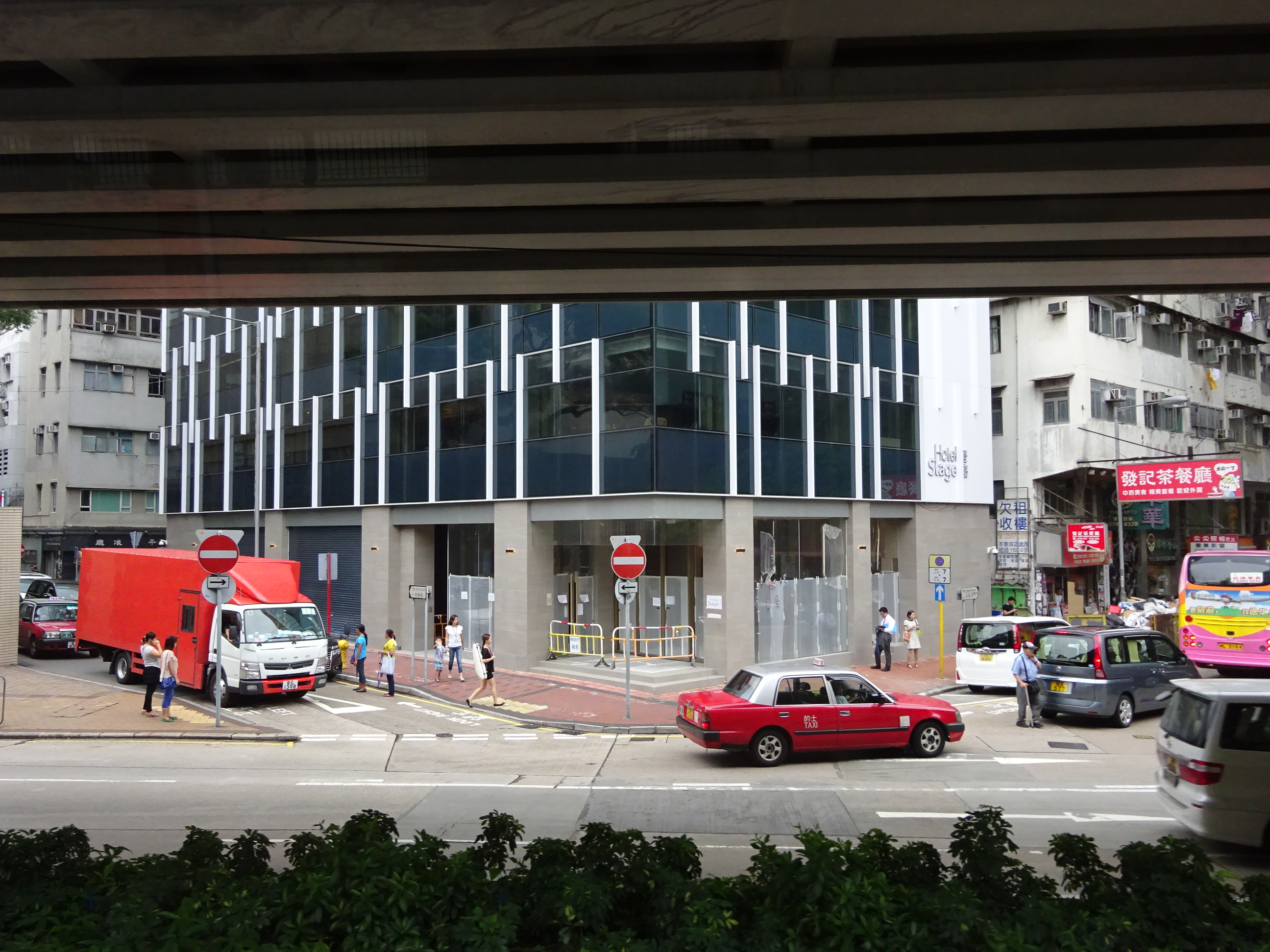 Bus 102 tour view Gascoigne Road, Kowloon, Hong Kong